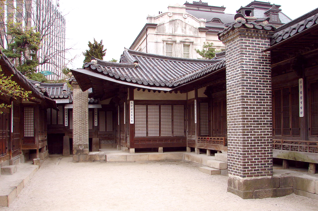 Unhyeon Palace (운현궁) is the former Korean royal residence of Prince Regent Daewon-gun, ruler of Korea during the Joseon Dynasty in the 19th century, and father of Emperor Gojong. The site dates from the 14th century. In 1993 Unhyeon Palace underwent 3 years of renovations to restore its earlier appearance.